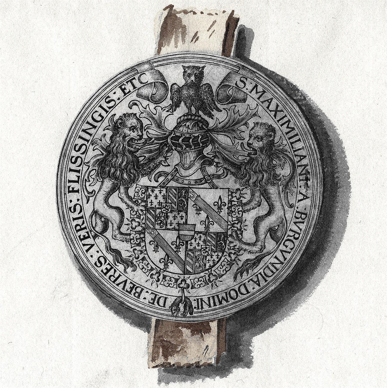 The seal of Maximilian II of Burgundy (1514 - 1558), Admiral of Holland and Zeeland, Marquis of Veere and lord of Beveren and Flushing.